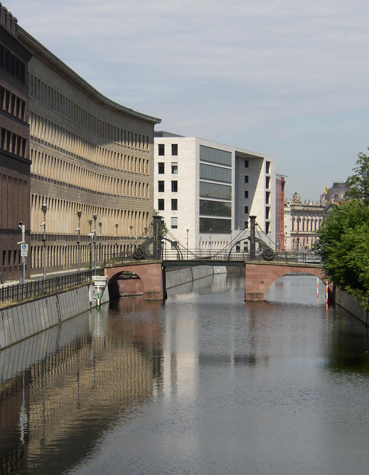 Foreign Office and Maiden bridge in Berlin-Mitte, Germany